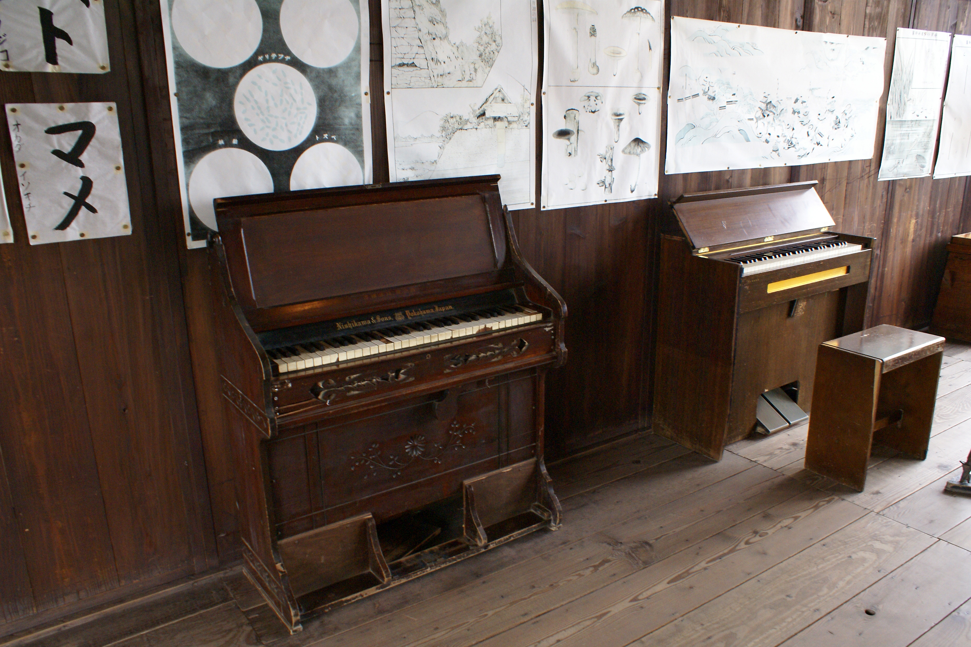 The amusement park of "Twenty-four eyes" in Shodoshima Island, Kagawa Prefecture, Japan)